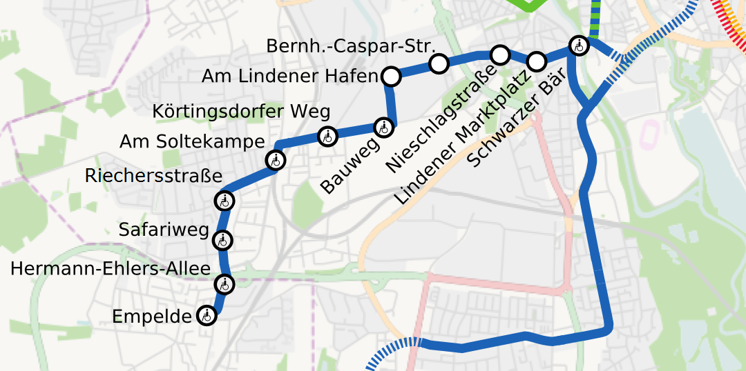 Light rail of Hannover, Germany. A West